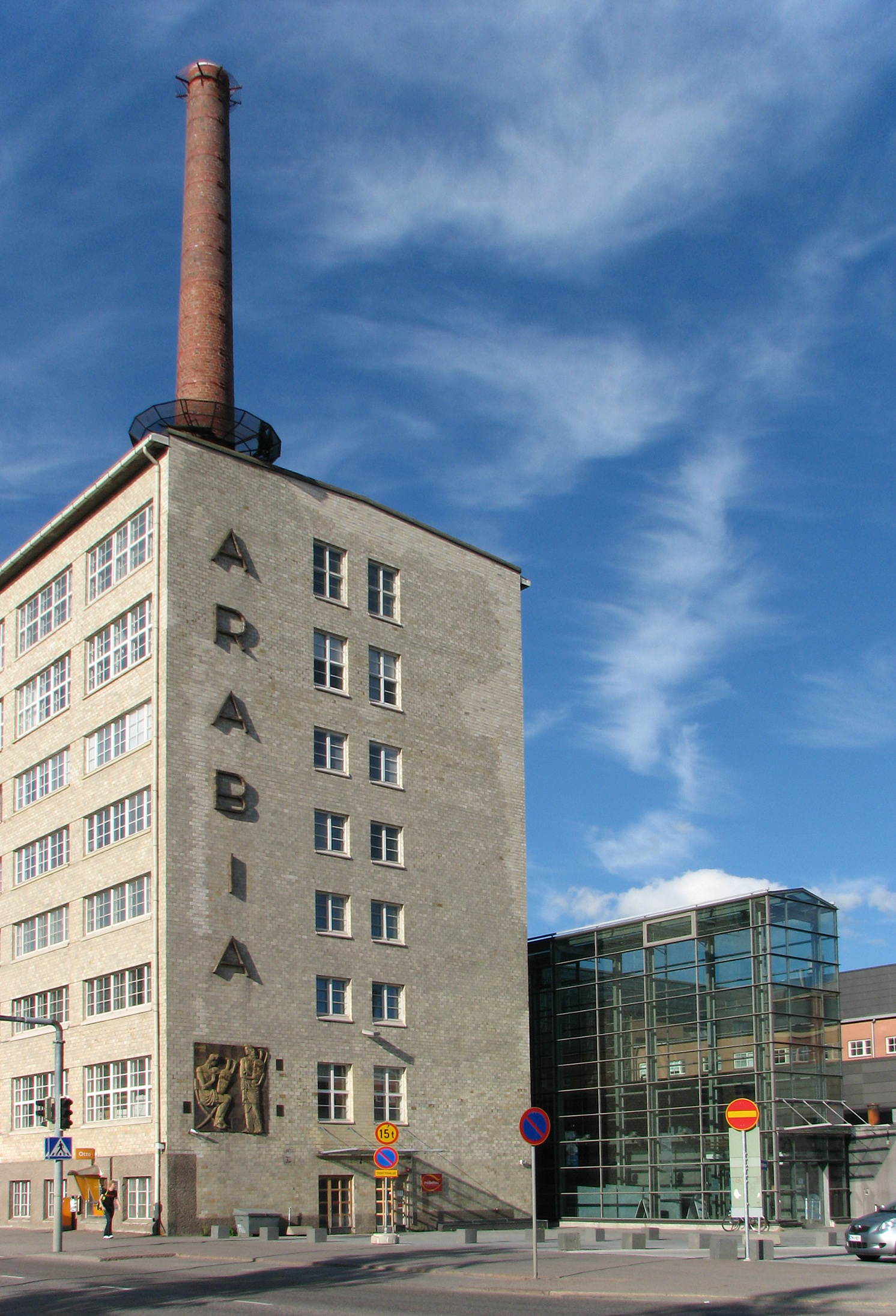 The Arabia factory building in Arabianranta, Helsinki, Finland, home to the University of Art and Design Helsinki.